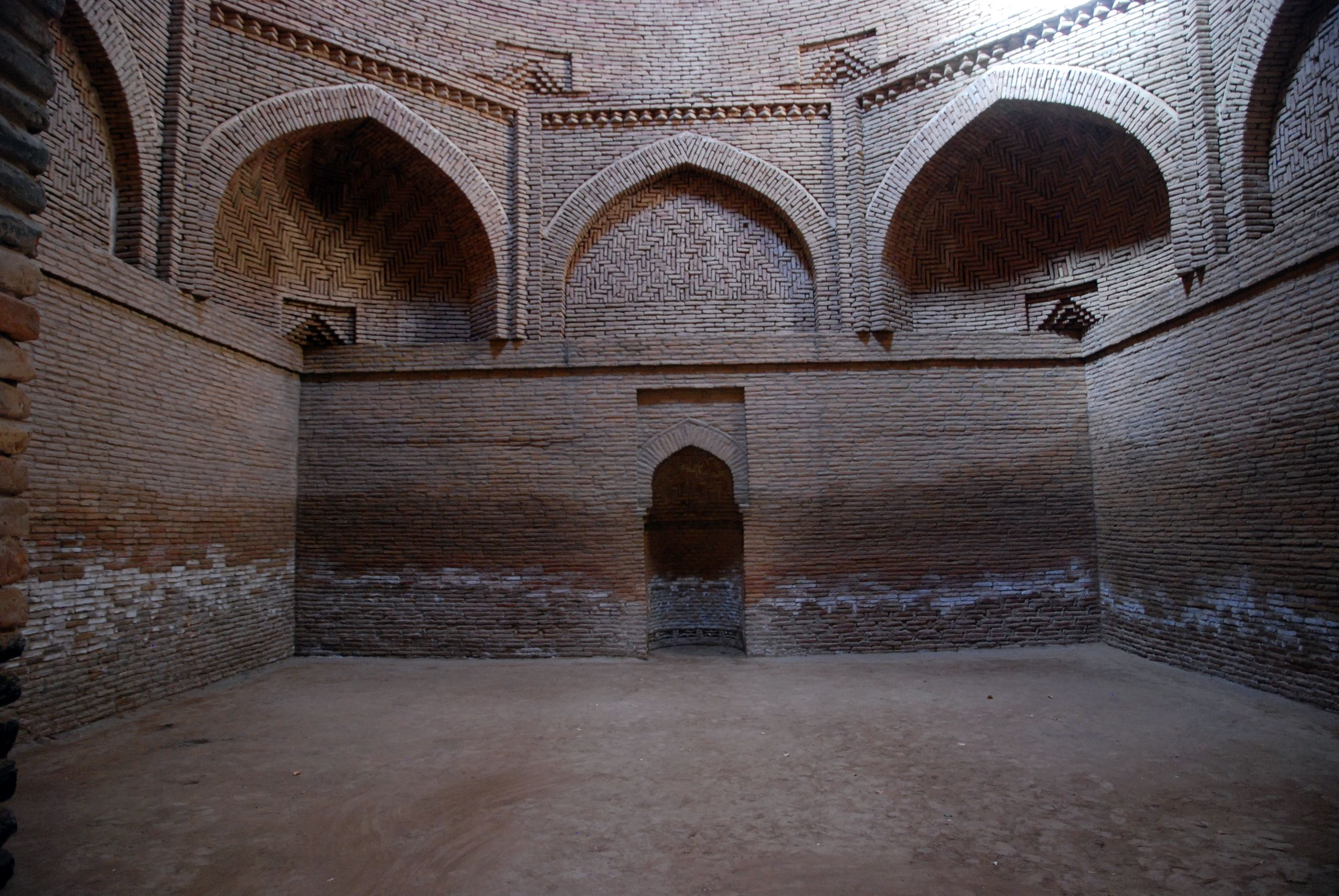 Khoja Mahshad, near Shahrituz, western dome